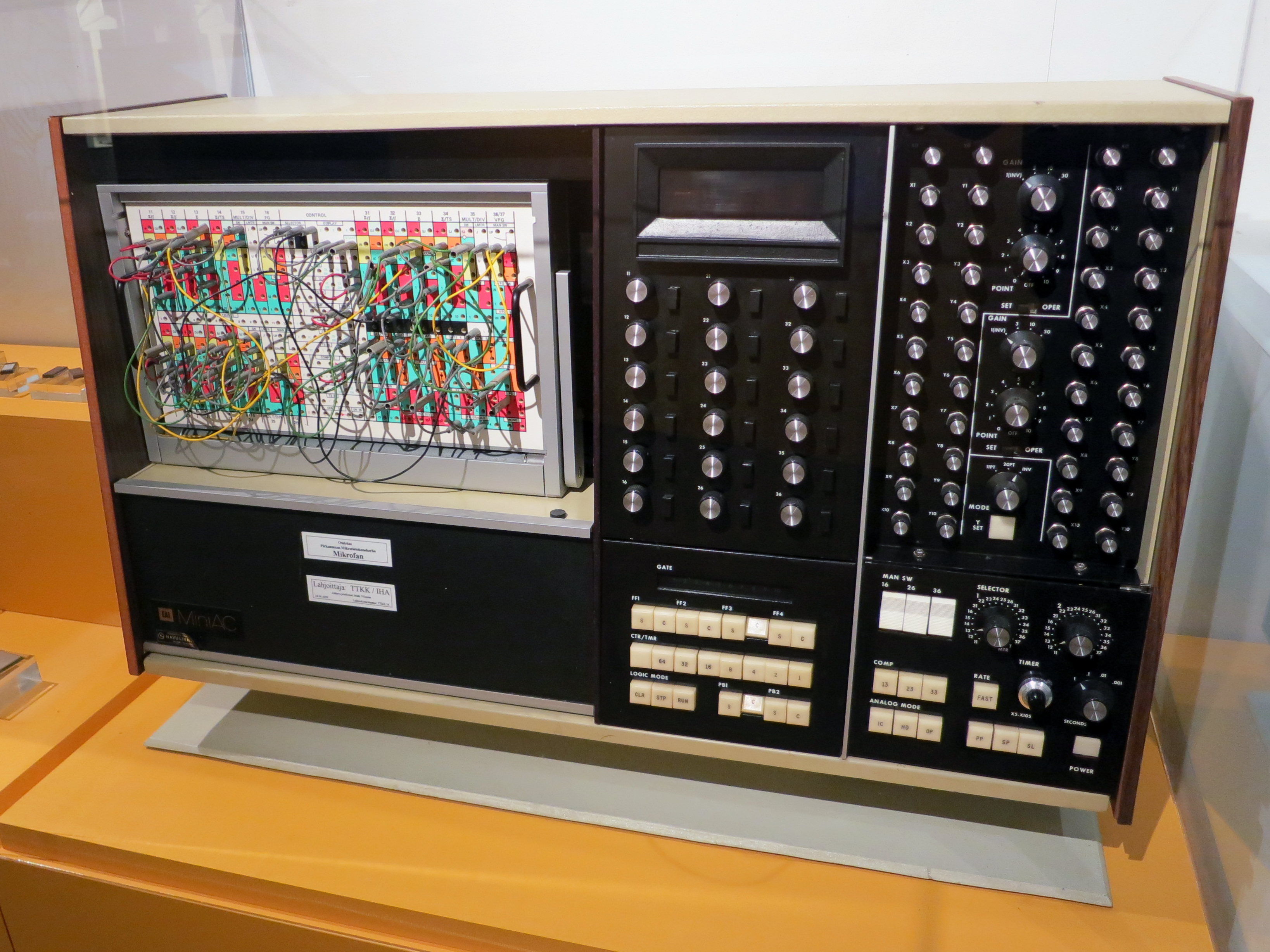 Analog MiniAC computer on display at´Rupriikki Media Museum, Tampere, Finland. The computer was originally used at the Tampere University of Technology.